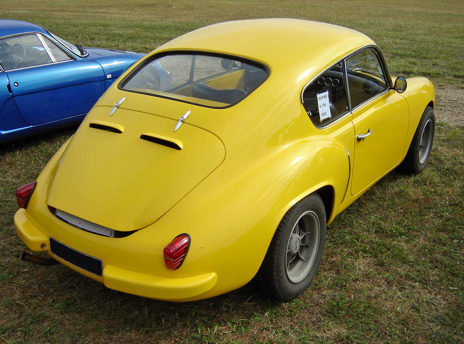 1958 Alpine A106 at the Autodrome de Linas-Montlhéry Montlhéry 2009. More modern Gordini wheels are fitted.